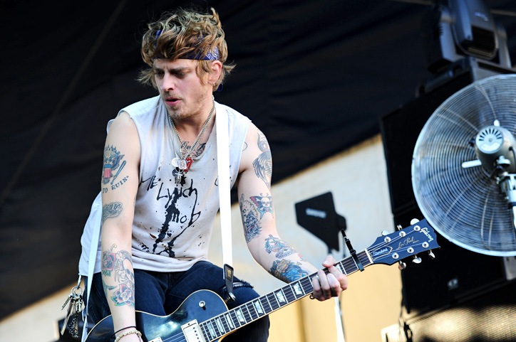 James Lynch No Sleep Til Festival 2010